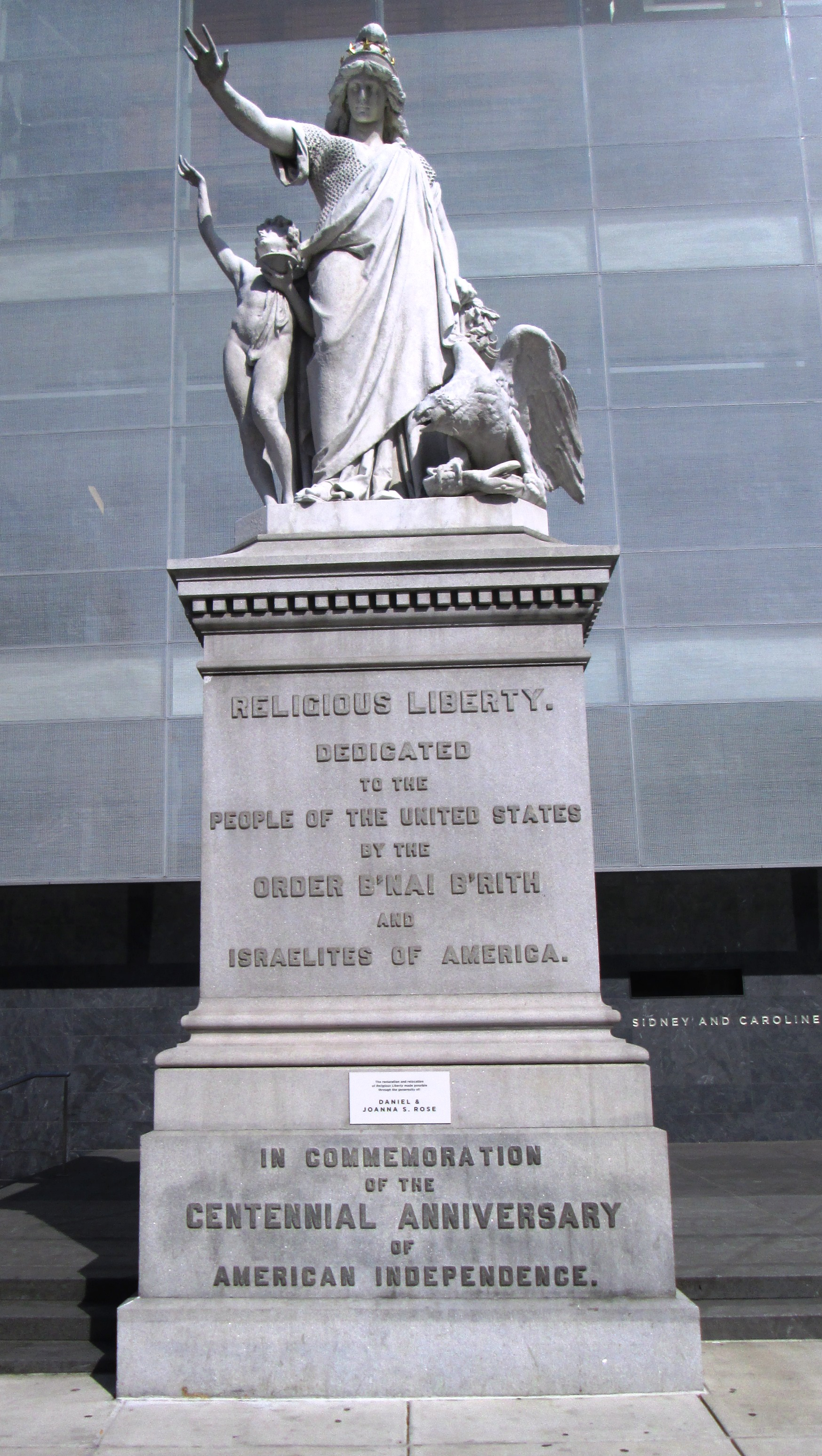 "Religious Liberty" was commissioned by B'nai B'rith and dedicated in 1876 to "the people of the United States" as an expression of support for the constitutional guarantee of religious freedom. Created by Moses Jacob Ezekiel, the first American Jewish sculptor to gain international prominence, the 25-foot marble monument was carved in Italy and shipped to Fairmount Park in Philadelphia for the nation's Centennial Exposition. It was later moved to Independence Mall and now stands in front of the National Museum of American Jewish History.